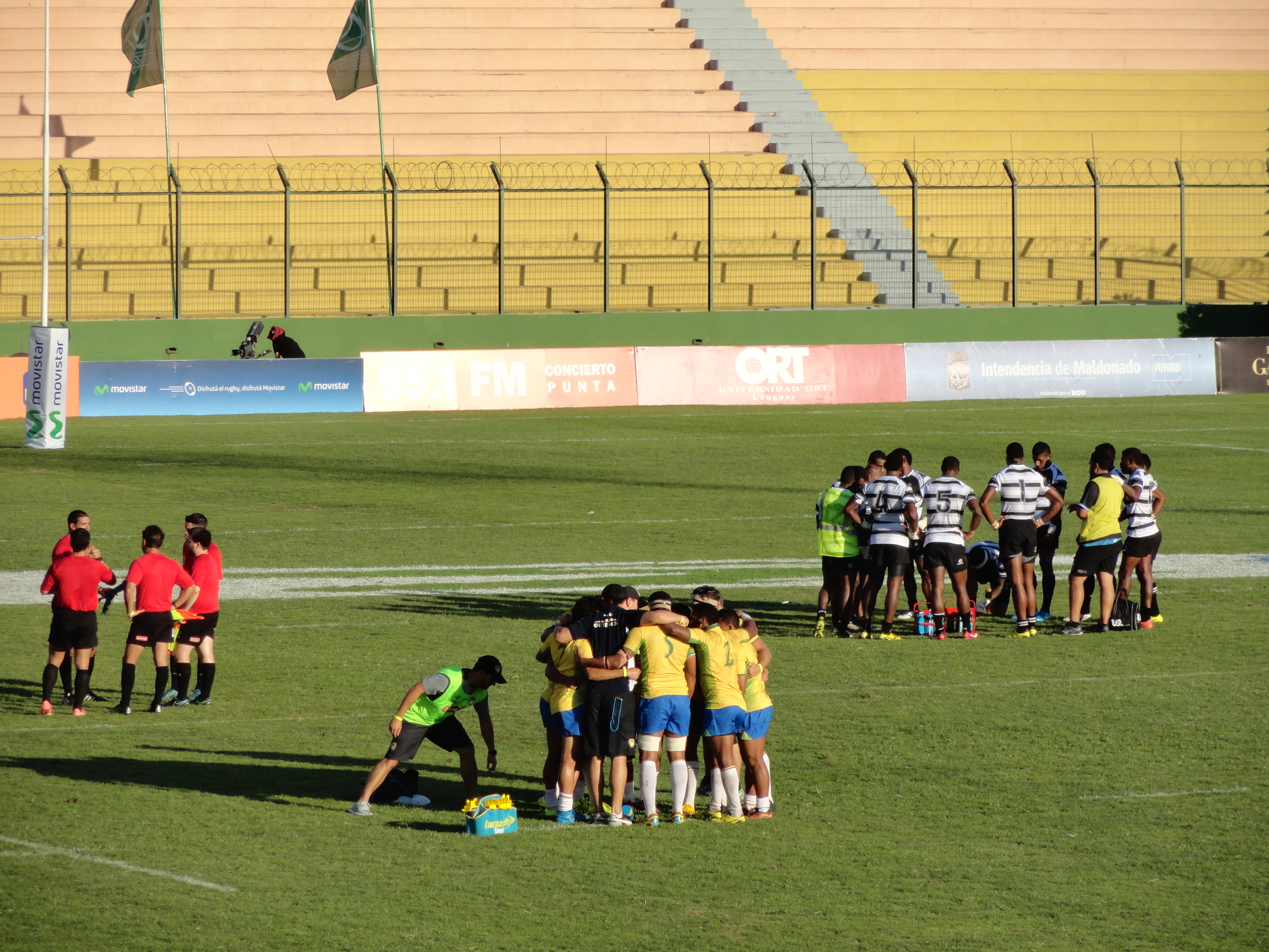 Seven de Punta del Este 2017, a rugby sevens tournament held at the Estadio Domingo Burgueño Miguel in Maldonado, Uruguay.